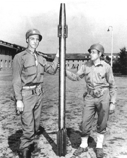 Two US Army soldiers with a captured Sprenggranate 4481 projectile, which would have been used in the V-3 cannon